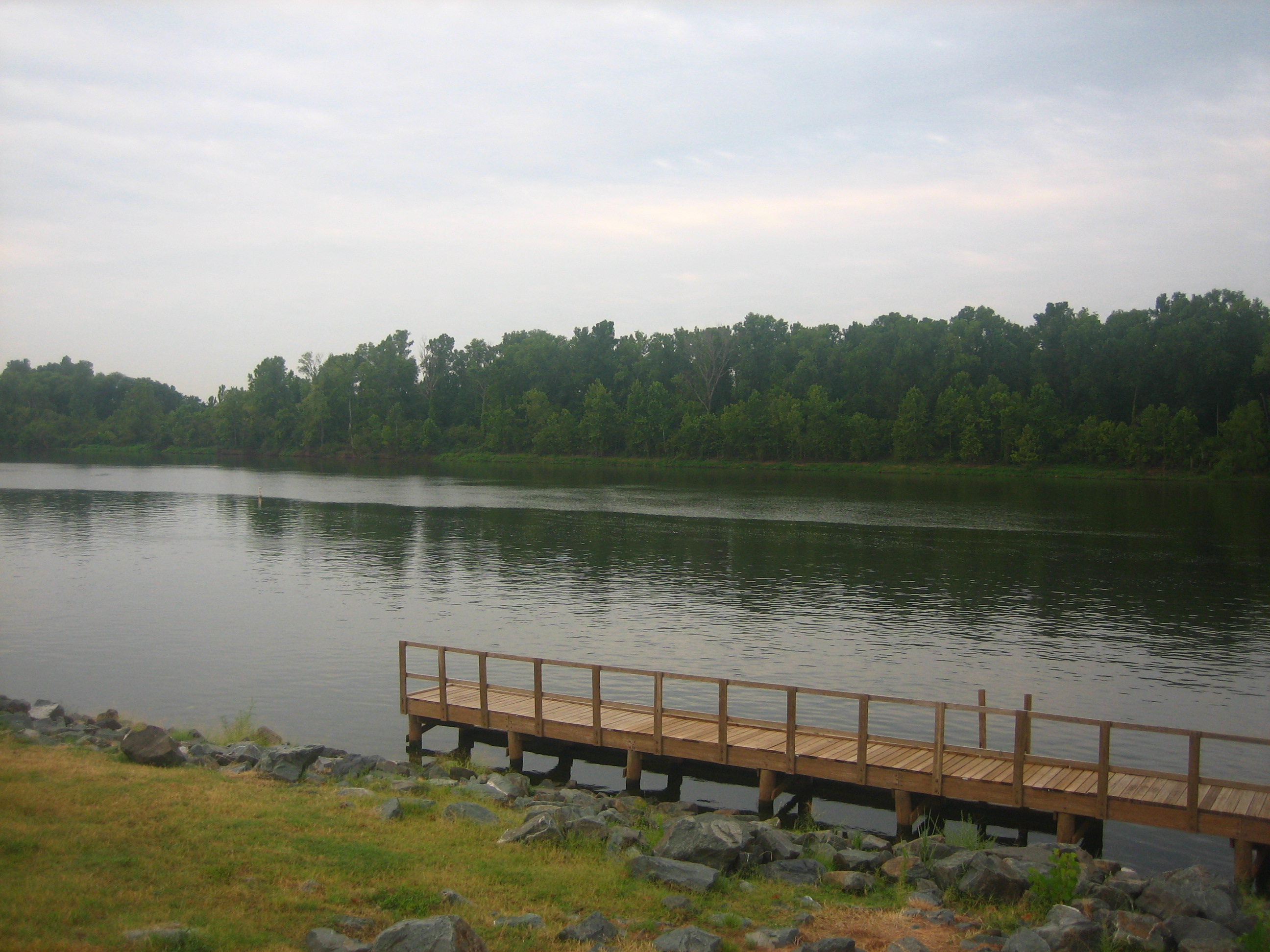 I took photo on Aug. 9, 2008.Billy Hathorn (talk) 13:45, 23 August 2008 (UTC)